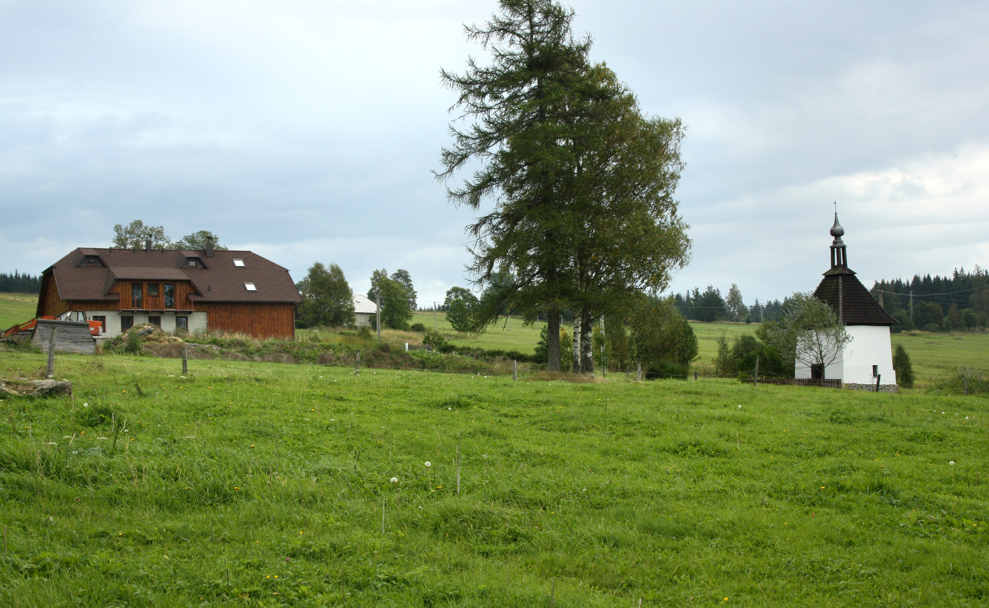 Šindlov, part of Borová Lada village, Czech Republic